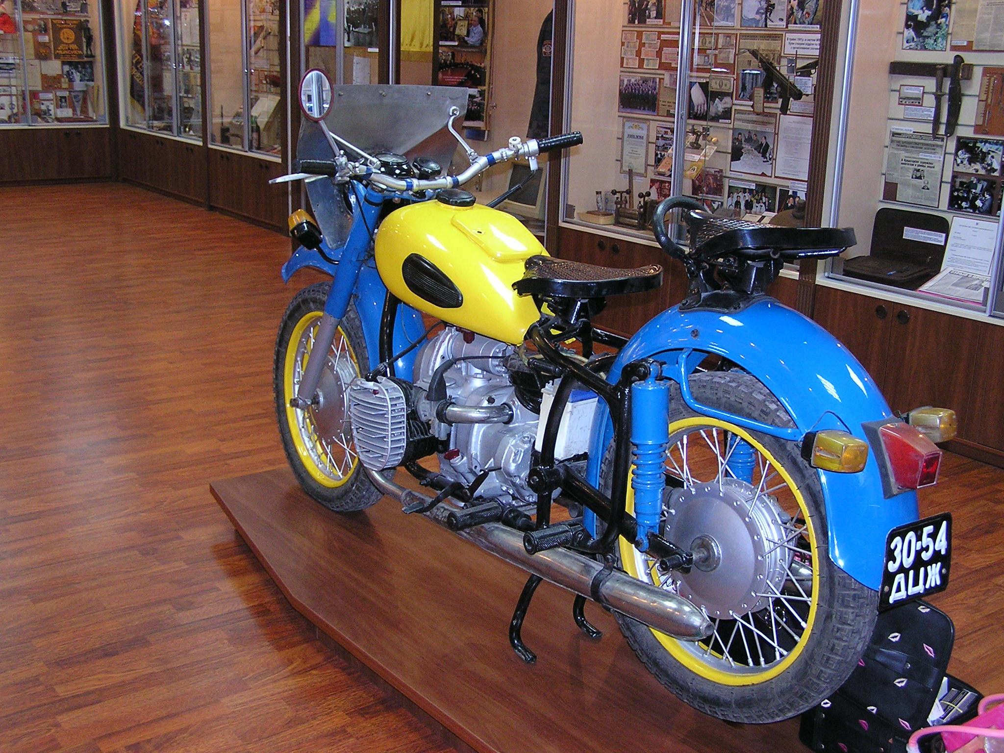 Museum of the History of Donetsk militsiya